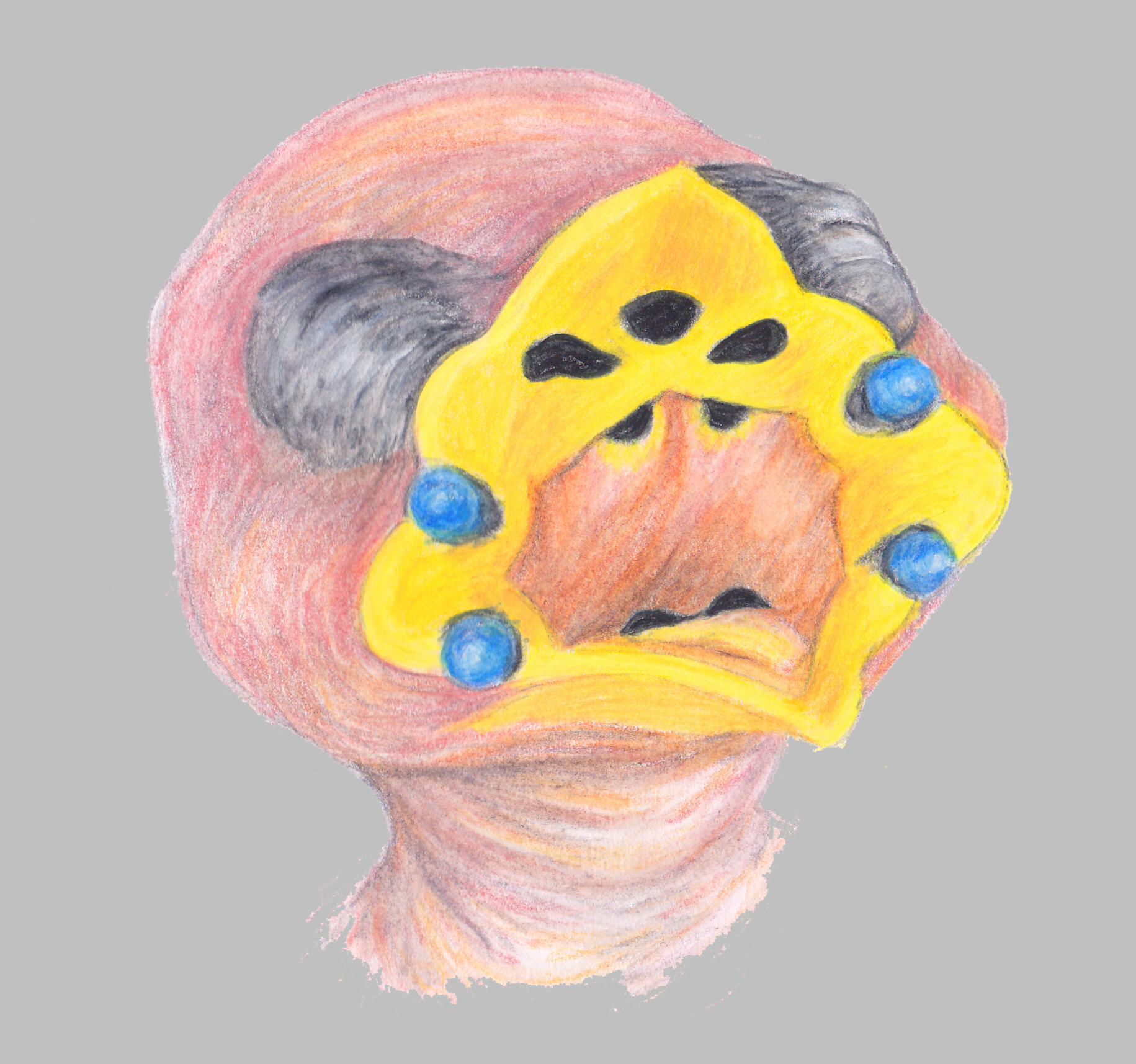 The mouth markings of a parrotfinch (Erythrura) chick